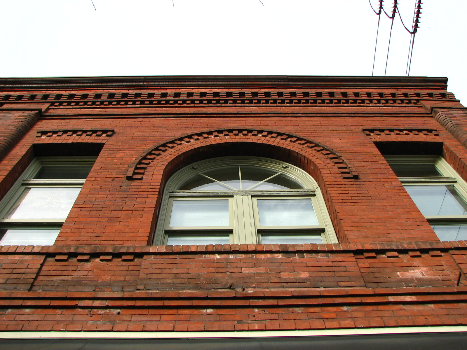 Brickwork detail of the historic Davis Block building at 801-813 North Russell Street, Portland, Oregon, United States. The building is listed on the US National Register of Historic Places.